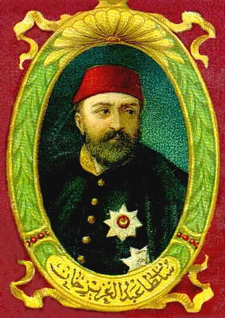 Abdülaziz (1830–1876), sultan of the Ottoman Dynasty from 1861 to 1876.